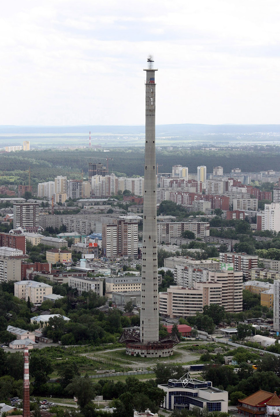 Ekaterinburg. Abandoned Tower